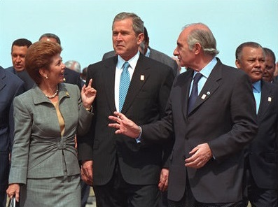 President Bush talks with Panama's President Mireya Moscoso and Argentina's President Fernando de la Rúa prior to the official group photo at the Citadelle during the Summit of the Americas in Quebec City, Canada.